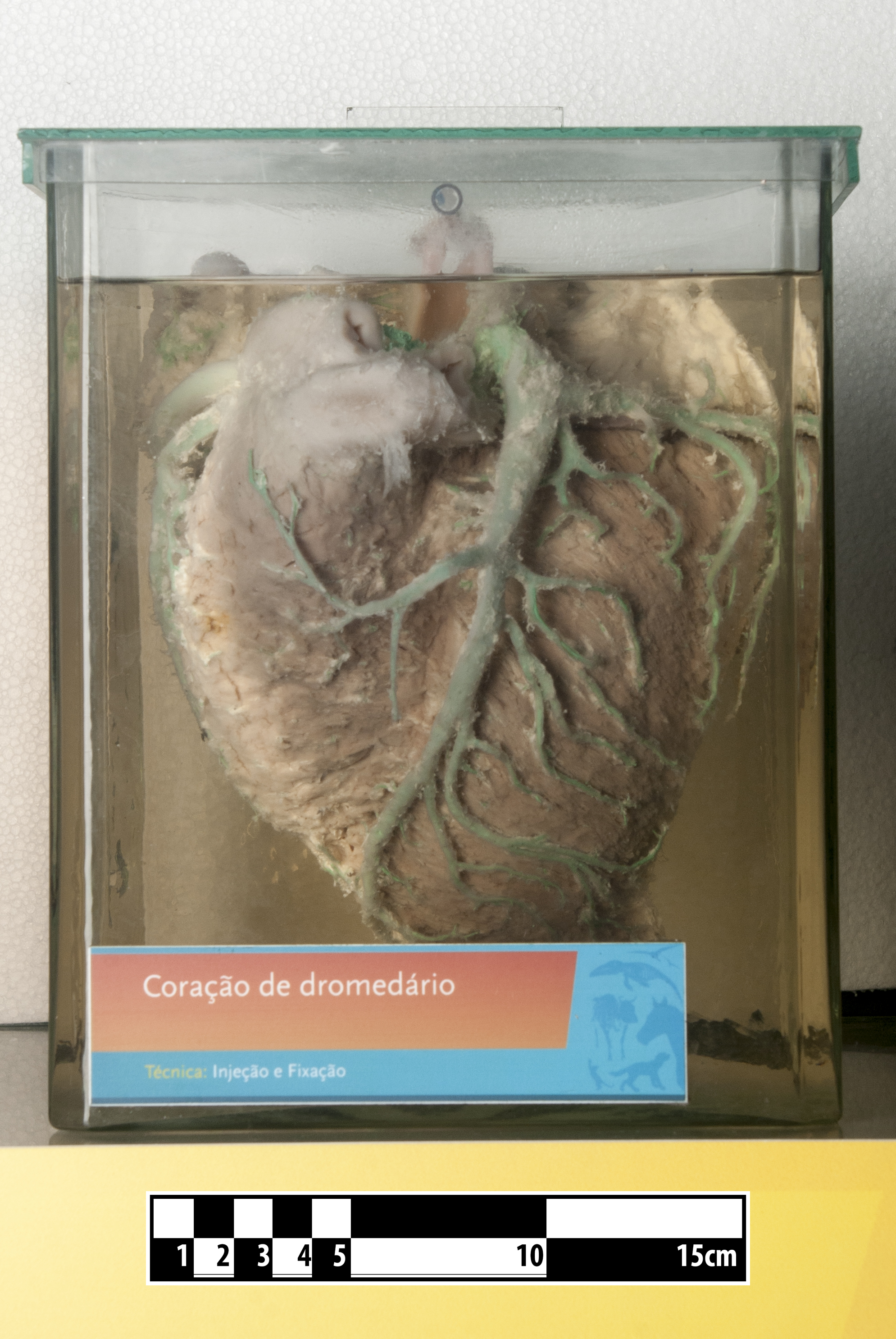 Dromedary heart. Camelus dromedarius Technique of latex injection and formalin fixation on display at the Museum of Veterinary Anatomy, FMVZ USP. This file was published as the result of a partnership between the Museum of Veterinary Anatomy FMVZ USP, the RIDC NeuroMat and the Wikimedia Community User Group Brasil. This GLAM project is reported. Photography: Museum of Veterinary Anatomy FMVZ USP. Author: Wagner Souza e Silva.